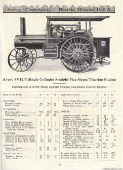 Image capture of a page from the 1909 Avery Catalog.